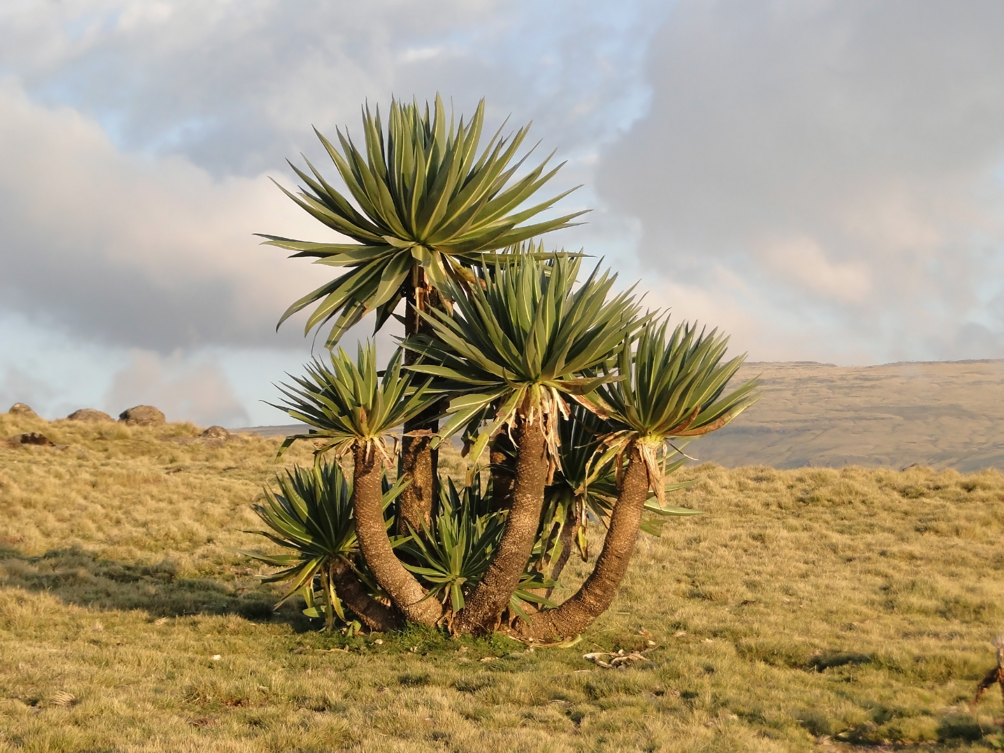 Giant lobelia (Lobelia rhynchopetalum) in the Simien Mountains National Park, Ethiopia